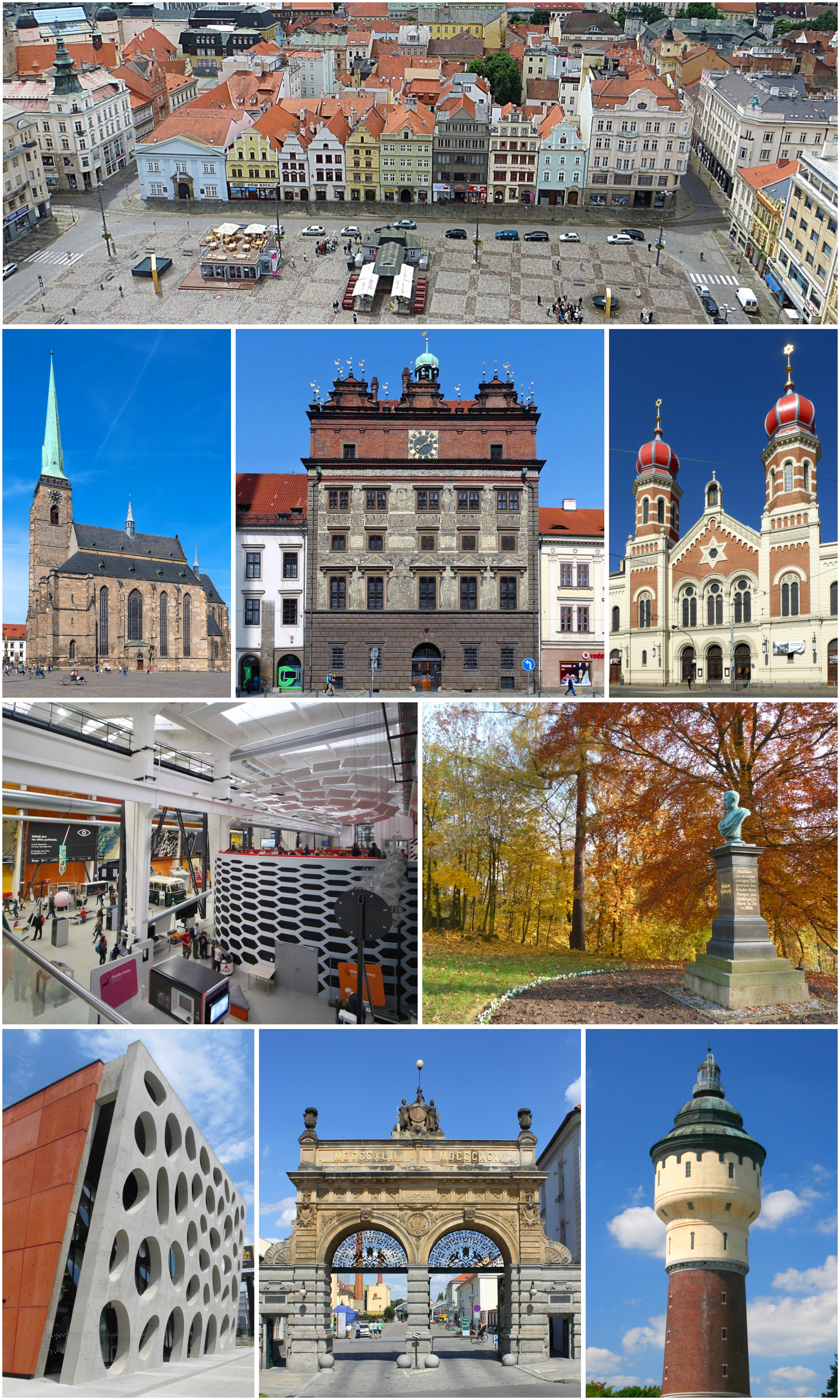 Plzeň city, Czech republic. From top: Republic Square, Cathedral of St. Bartholomew, Renaissance City hall, Great Synagogue, Techmania Science Center, Lochotín park, New Theatre, Prazdroj brewery gate, brewery water tower.